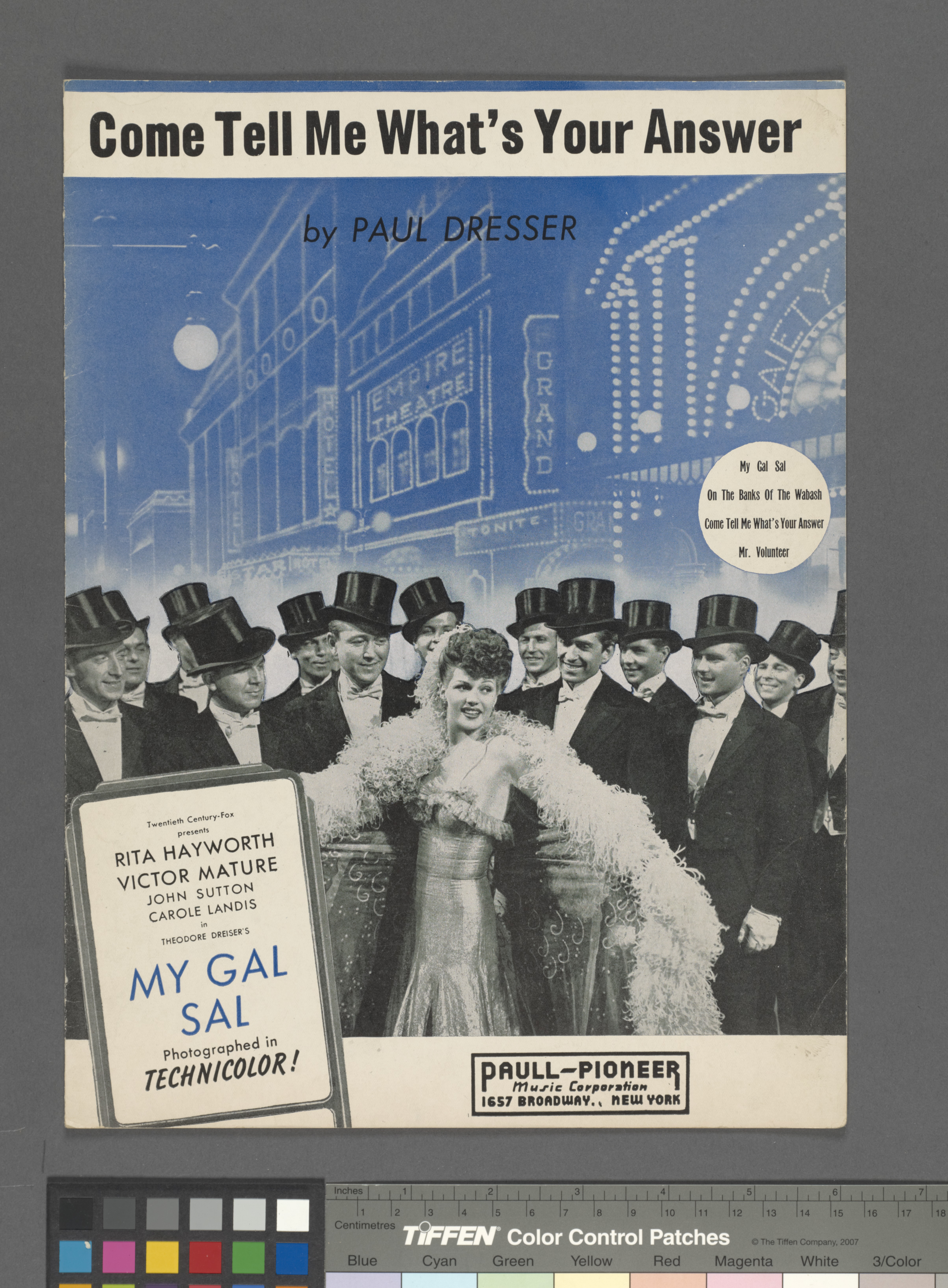 My Gal Sal. On cover: Rita Hayworth, Victor Mature, John Sutton, Carole Landis, et al. Statement of responsibility : lyric and music by Paul Dresser.